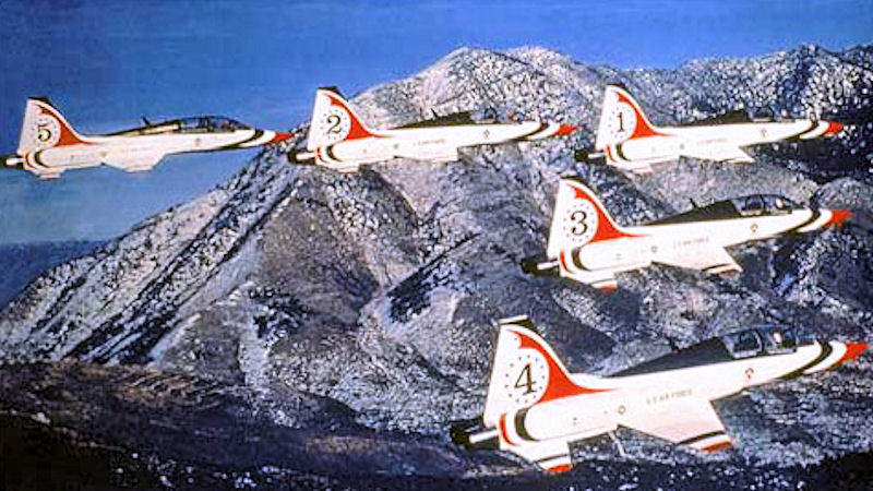 United States Air Force photo of the United States Air Force Thunderbirds demonstration team, using T-38 Talons, about 1980